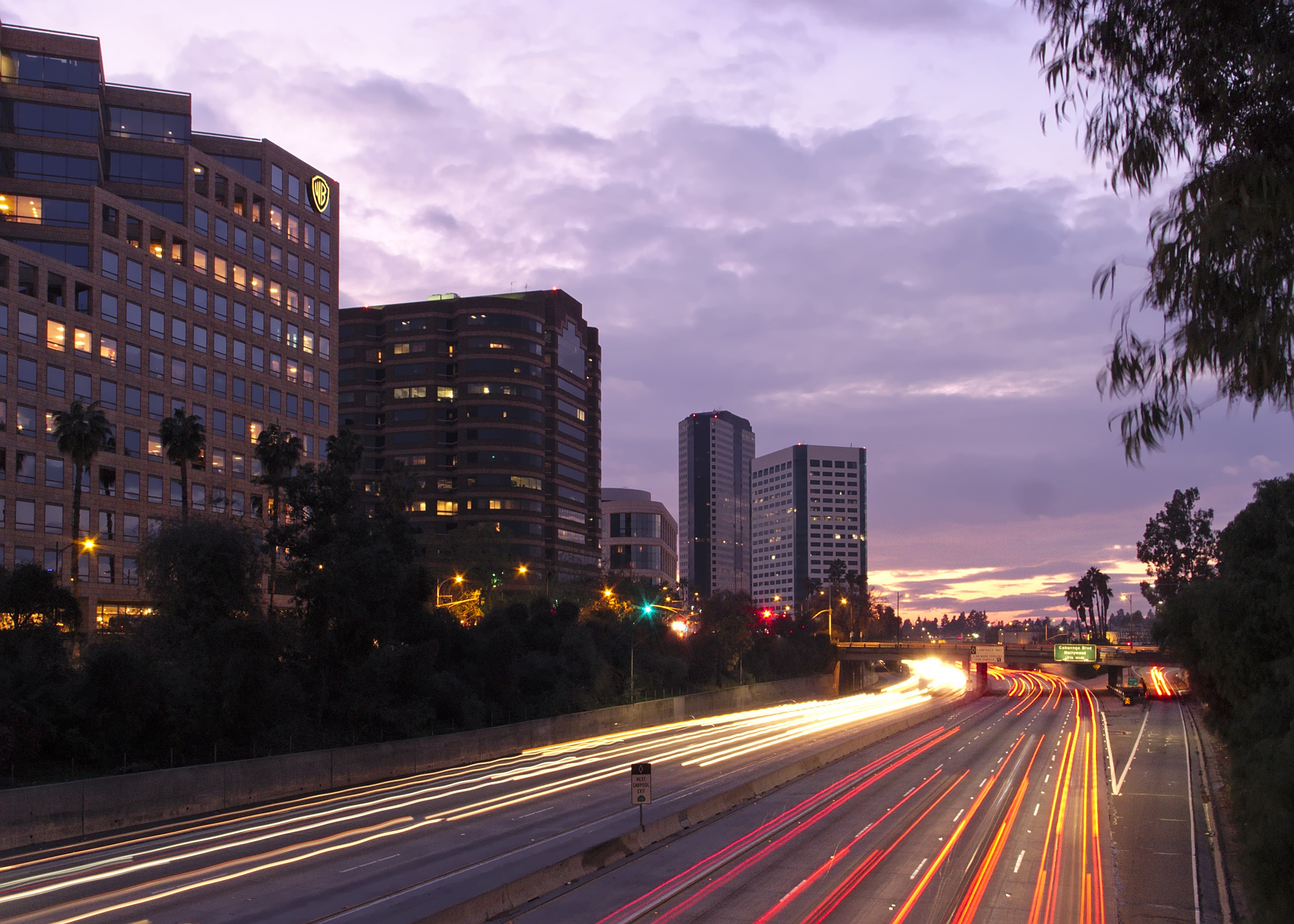 Looking west along California State Route 134/Ventura Freeway through the Burbank media district at sunset. Riverside Drive is between the buildings and freeway.